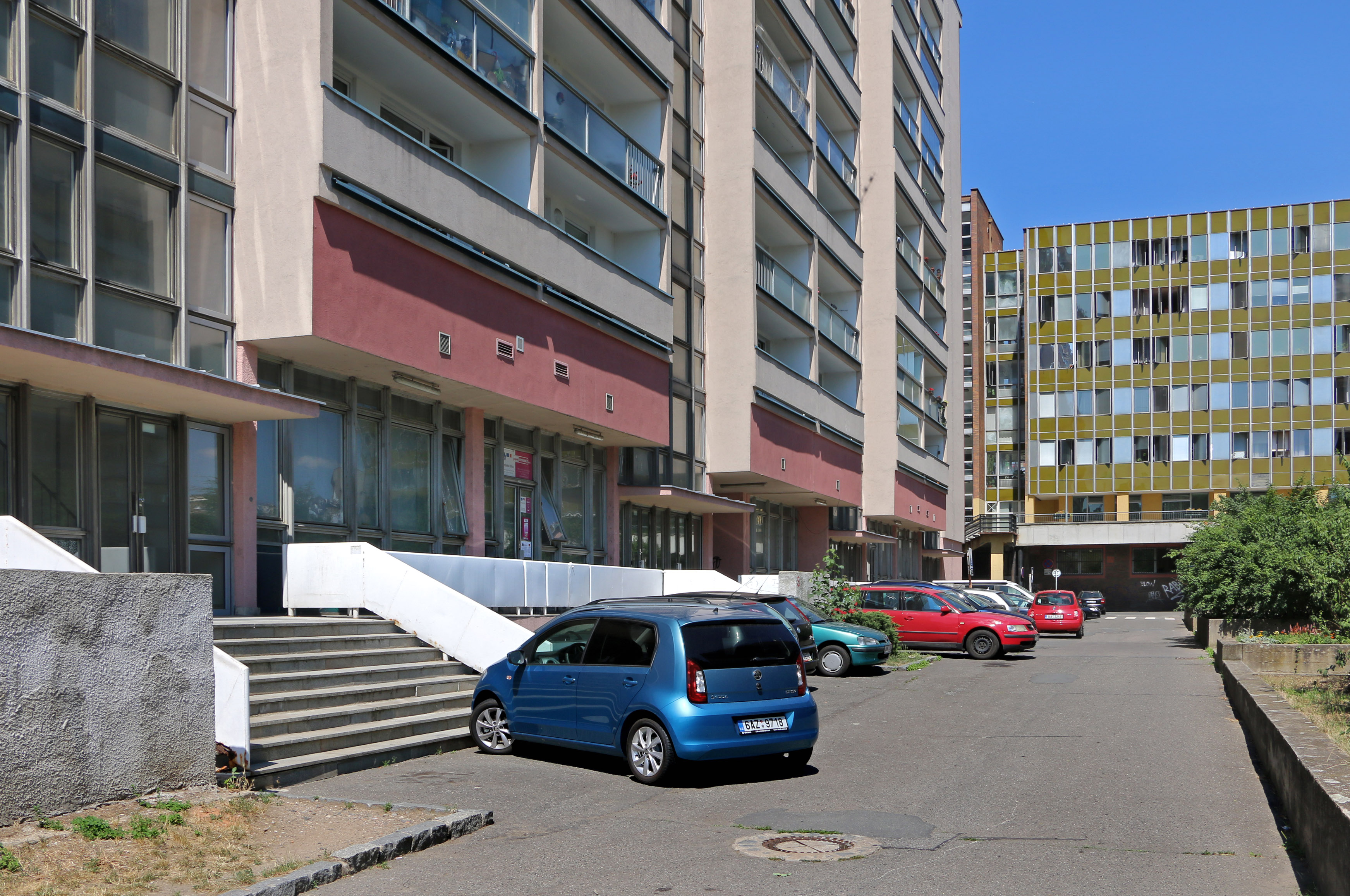 South view to Kazašská street, Prague.